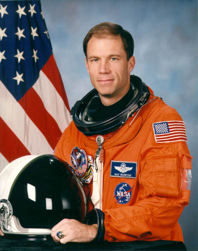 S98-00611 - Astronaut Richard A. Searfoss, STS-90 mission commander.